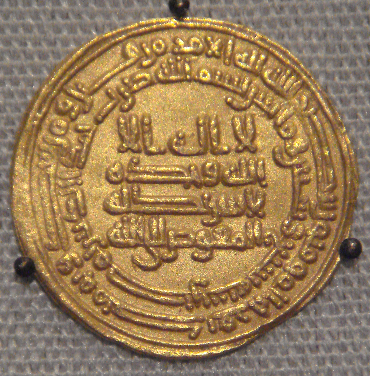 Aghlabids_Tunisia_880_CE